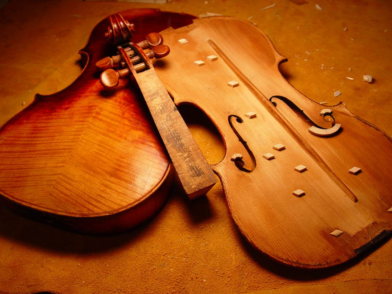 this is a violin that i am currently restoring. as you can see, it needs alot of work!